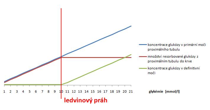 Explanation of glycosuria